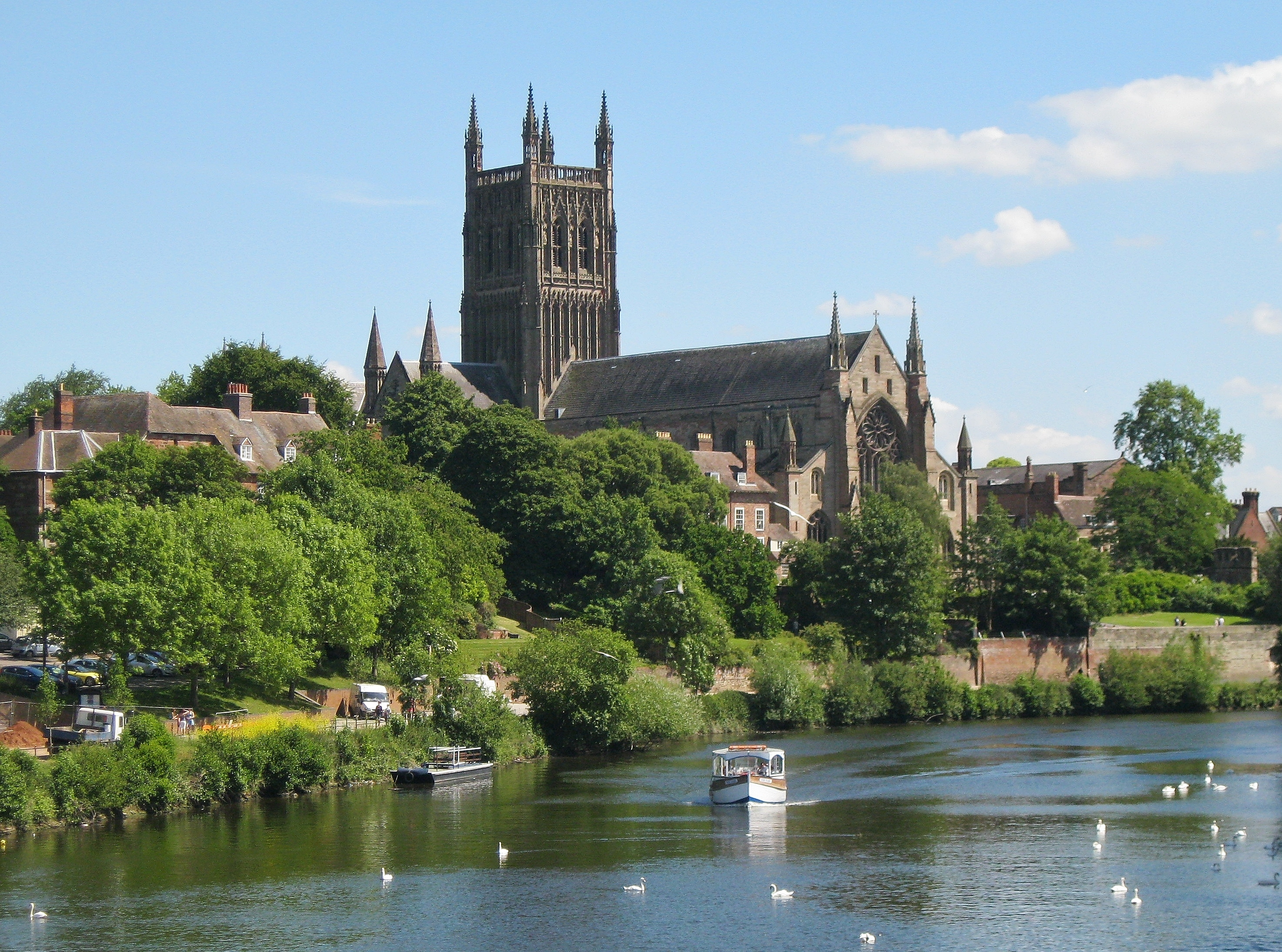 Worcester cathedral taken from the river